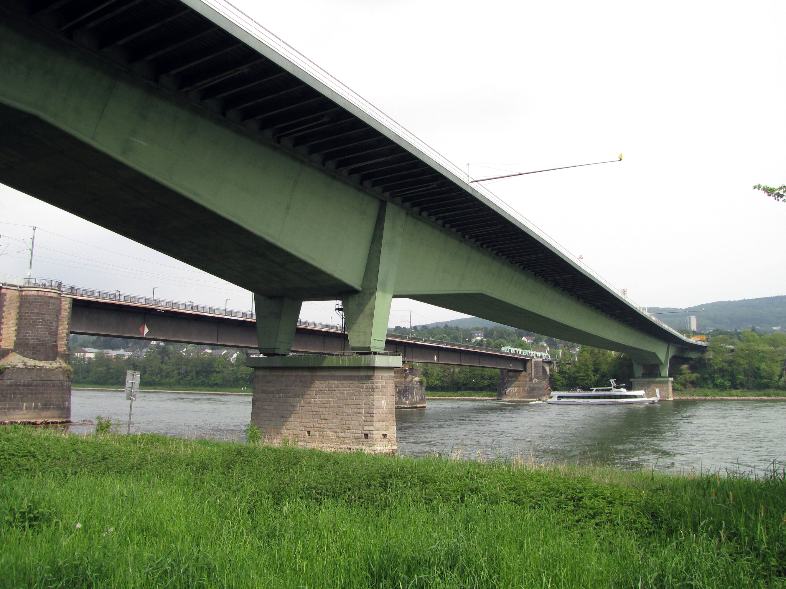 Südbrücke (South bridge) in Koblenz